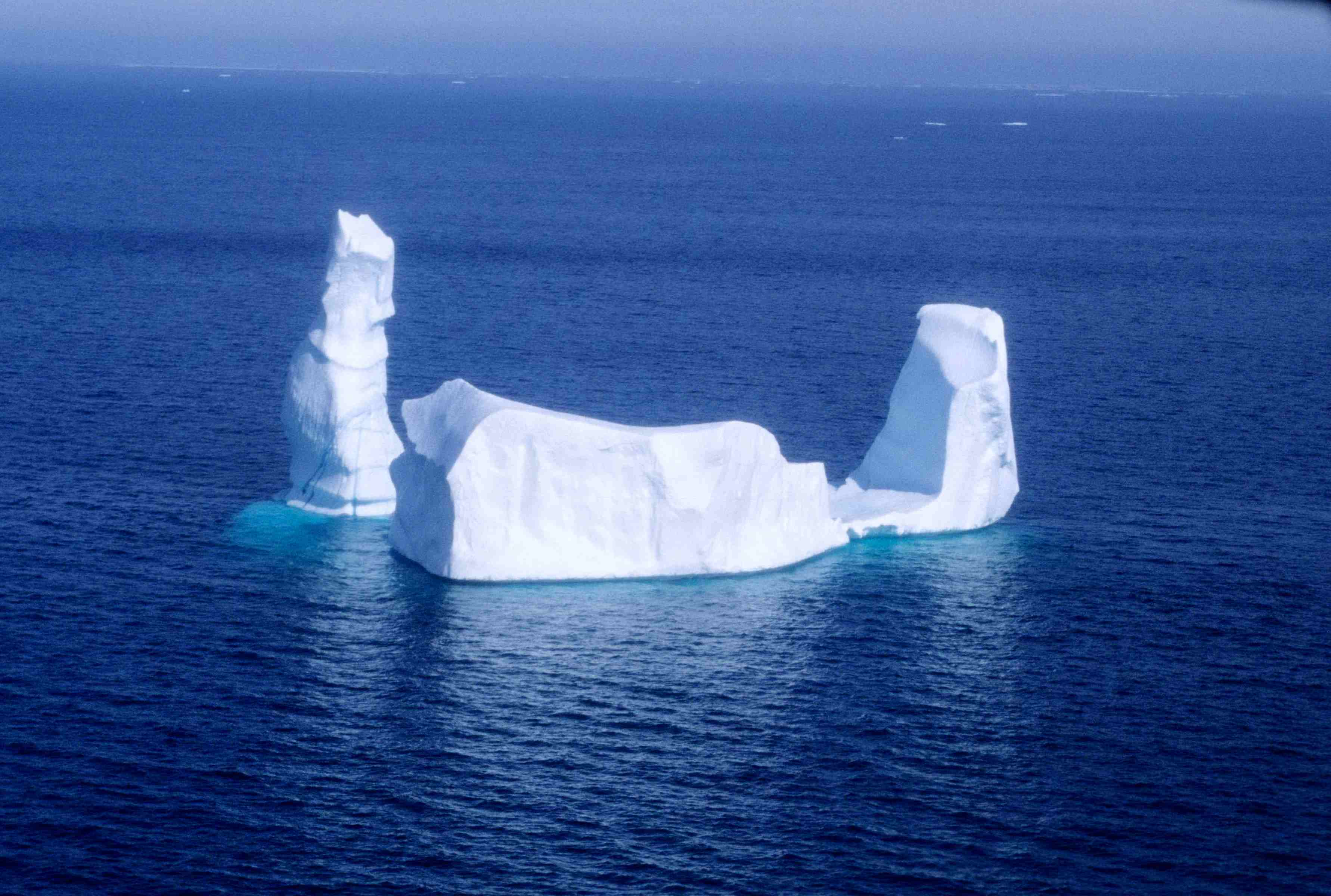 Iceberg near north-eastern coast of Baffin Island